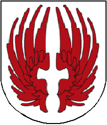 Coat of arms of Montsevelier, Canton of Jura, Switzerland (Source: Symbol on the wall of the municipal administration)